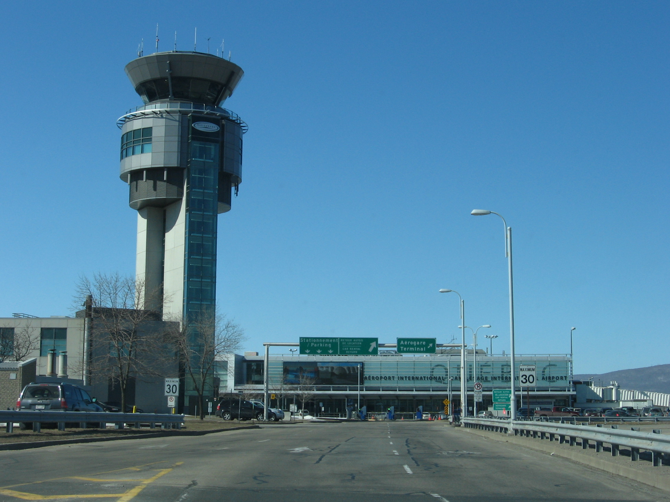 Jean Lesage International Airport